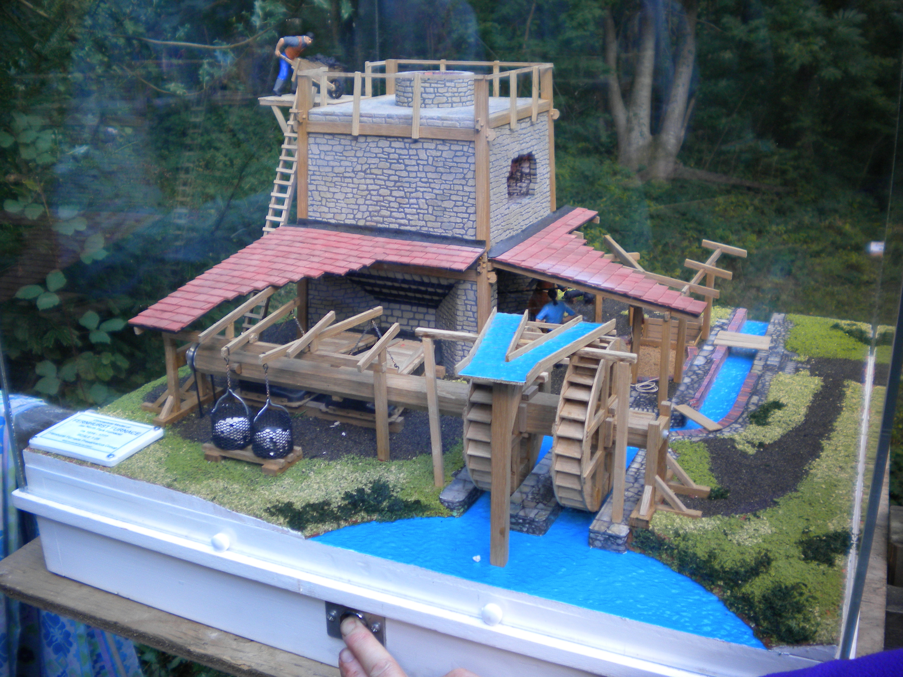 Moving model of a Wealden post medieval blast furnace based on the excavated site of Fernhurst Furnace, Fernhurst, West Sussex, England. Twin overshot waterwheels powered twin bellows to provide the air blast.